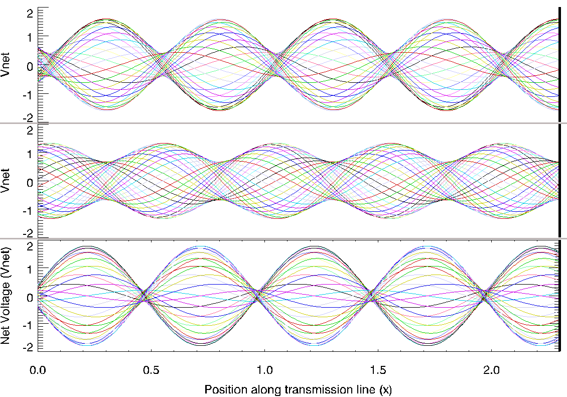 Standing waves on transmission line shown in different colors at 30 points of temporal phase. Incoming wave from left is partially reflected at x=2.3 with reflection coefficients .6, -.33333, and .8 @ 60 degrees. Results in SWR = 4, 2, 9.